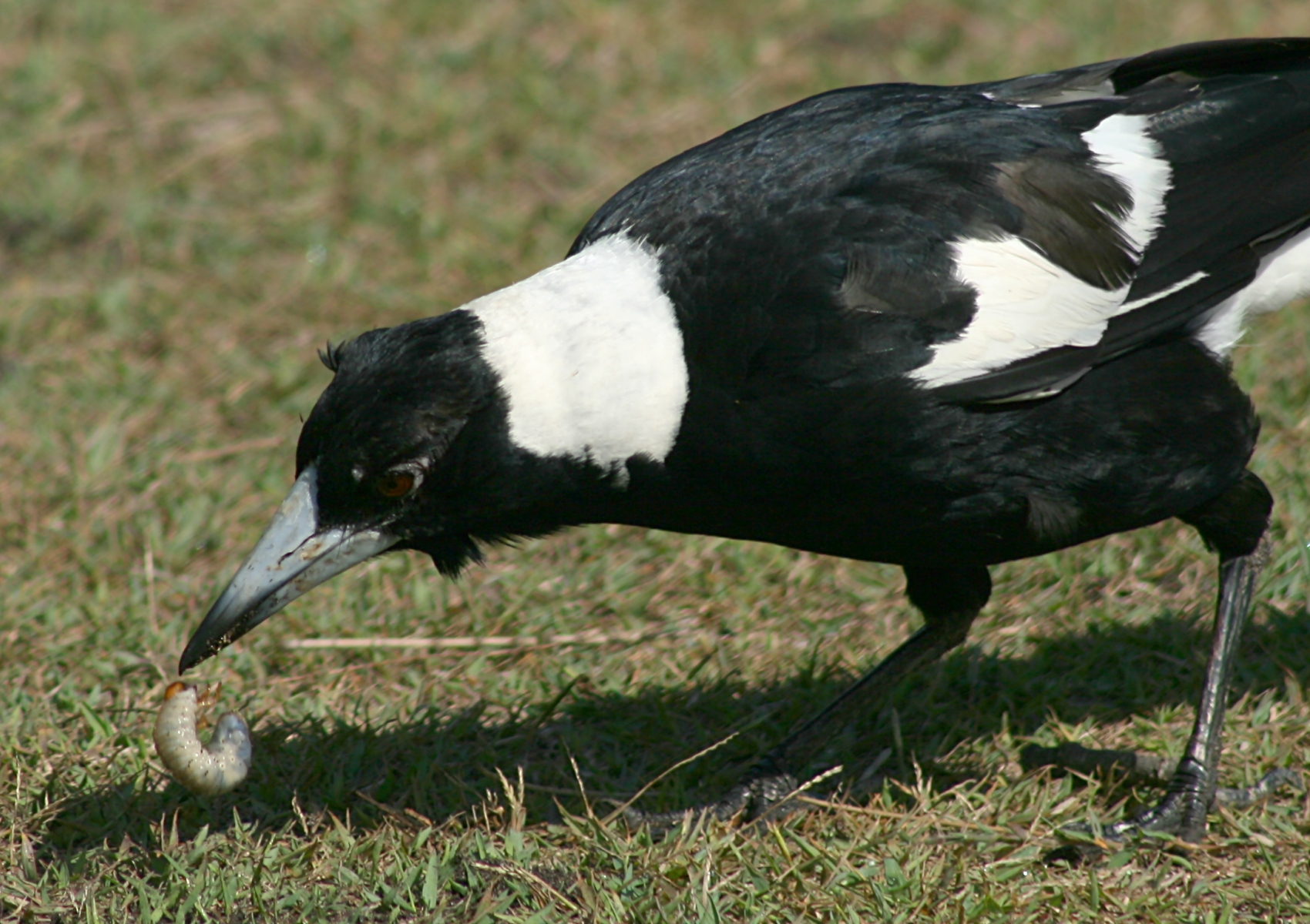 An Australian Magpie (Cracticus tibicen) digging for food, at the instant it ejects a grub.